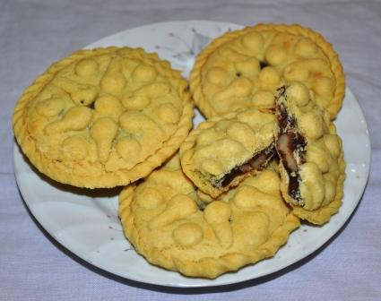 Kolompe